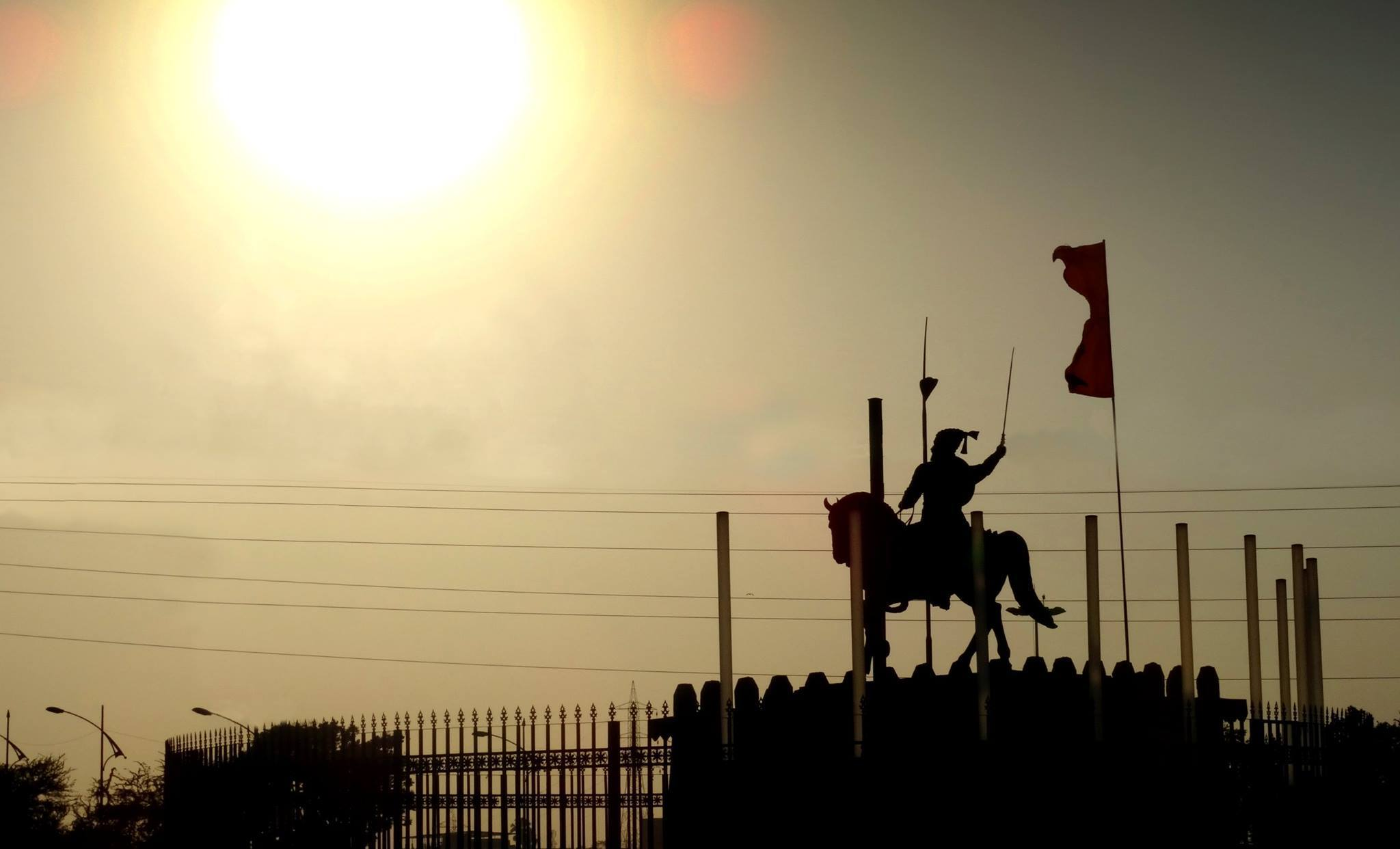 Kalyan's Durgadi Fort enterance.